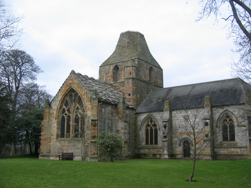 Seton Collegiate Church, East Lothian, Scotland